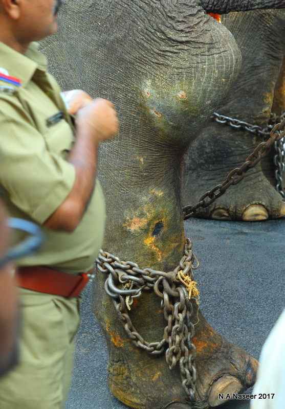 Captive Elephants of Kerala, Cruelty against elephants, Aanapremam, Thrissur Pooram, Festivals of Kerala, Elephants in captivity, Temples of Kerala